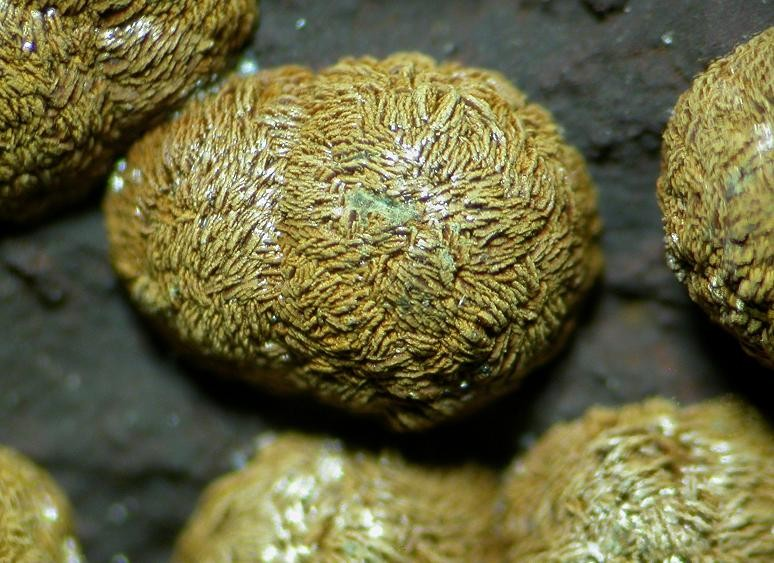 Dufrénite Locality: Iron Monarch open cut, Iron Knob, Middleback Range, Eyre peninsula, South Australia, Australia (Locality at ) Field of view 4 mm. Specimen and photo Leon Hupperichs. My thanks to Volker Hoppe for this very fine exchange specimen.